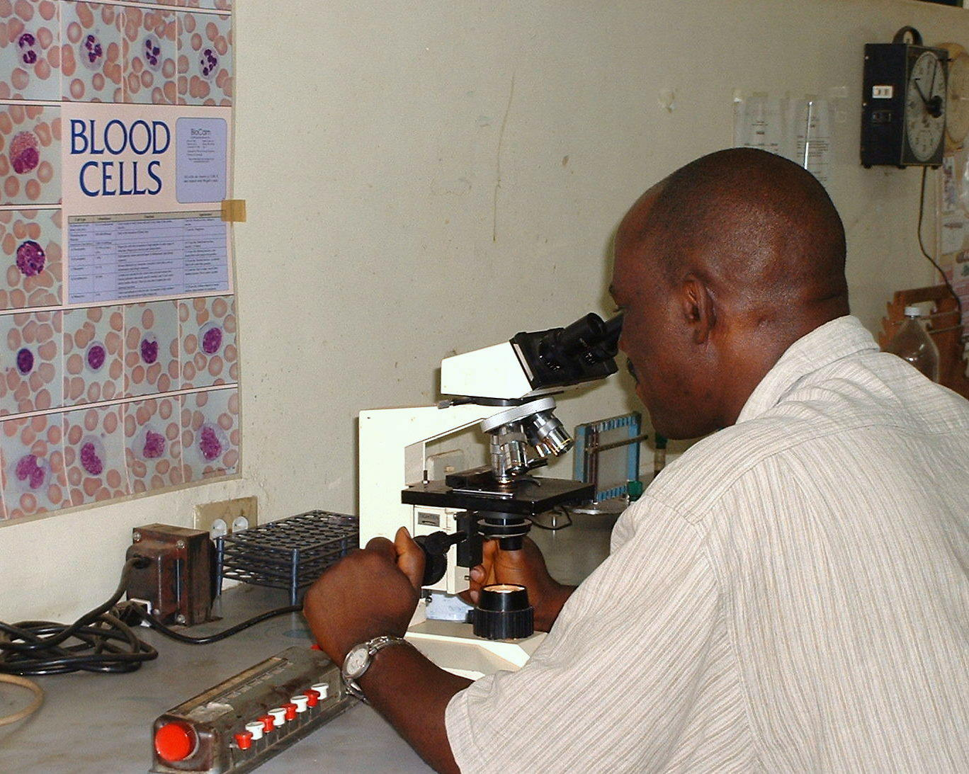 Lab worker Nehemia Ghata using microscope at ECWA Evangel Hospital, Jos, Nigeria. Device in foreground is counter for differential cell counts.